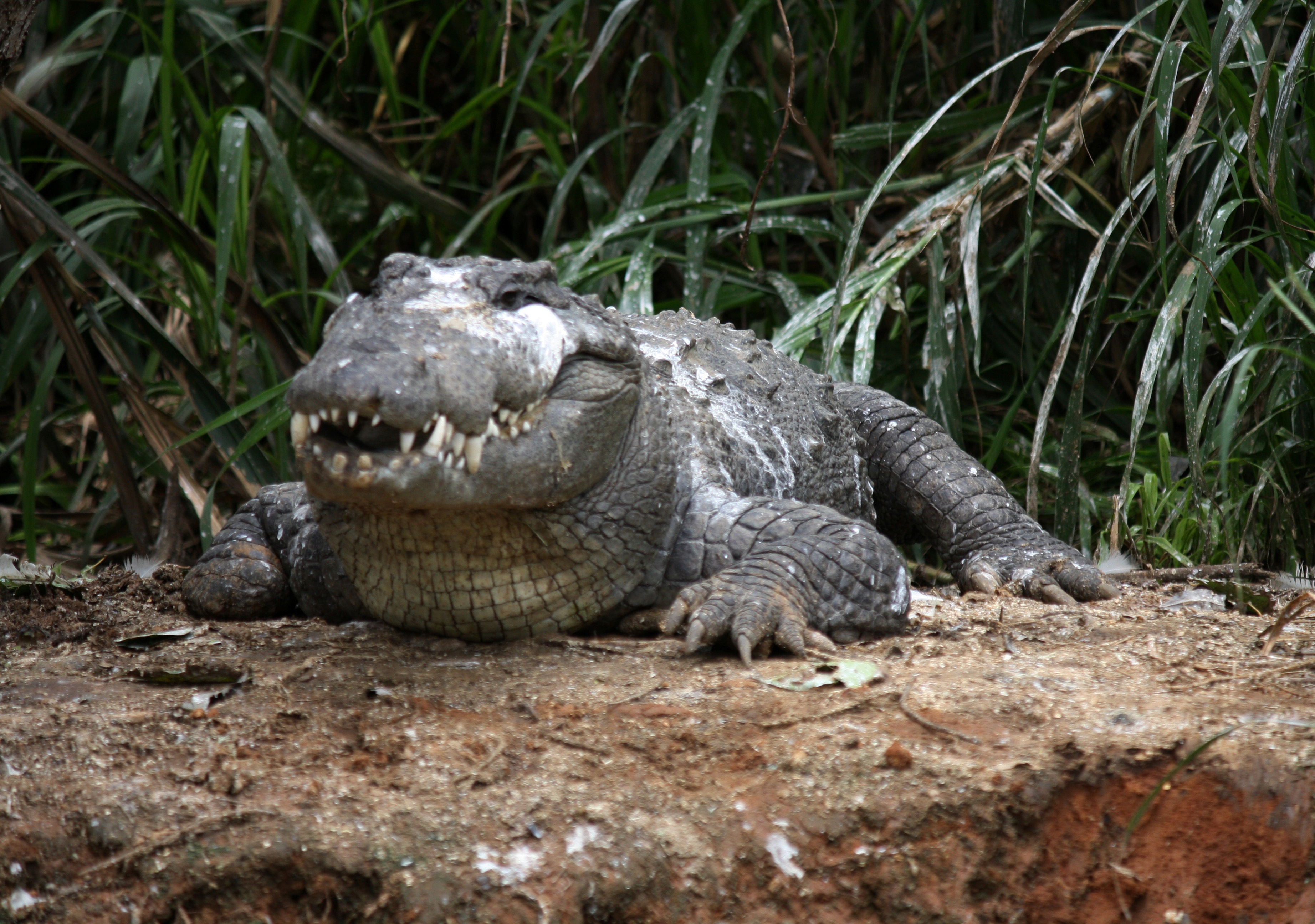 Indian Marsh Crocodile or Magar (in Hindi) in Rangnathittu Sanctury, near Banglore, India